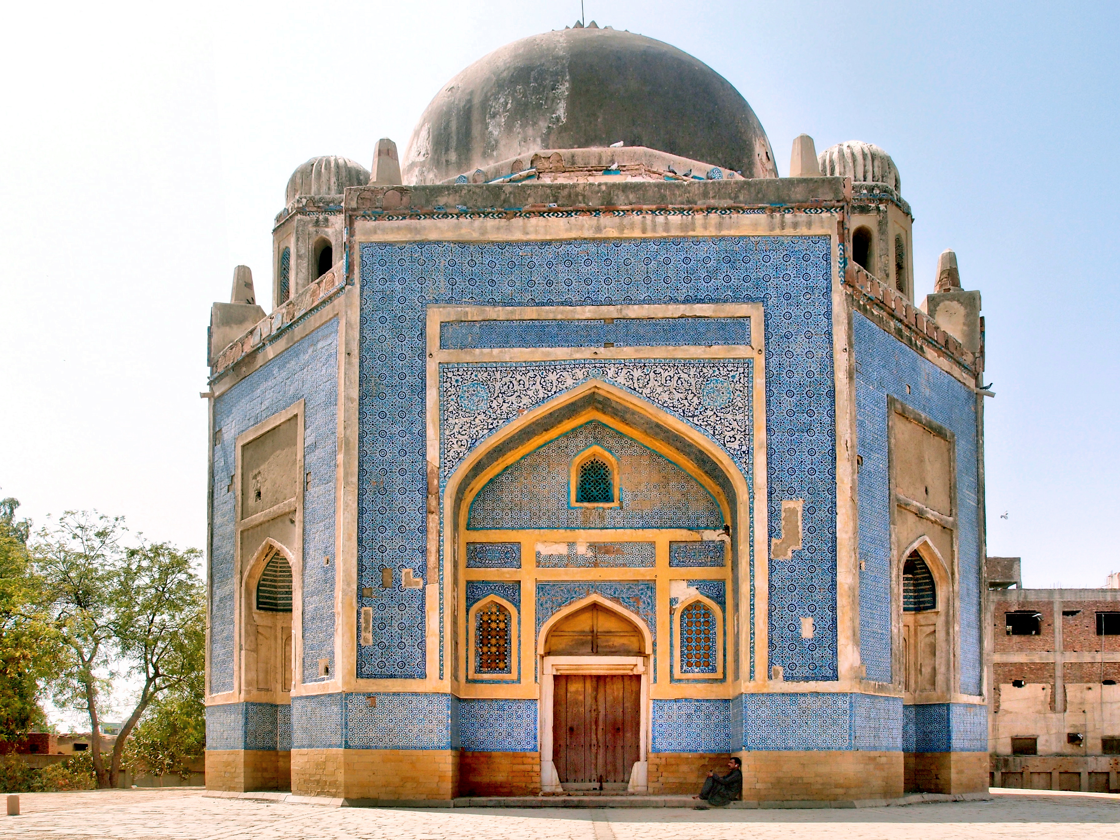 Tomb of the Kalhoro ruler Mian Ghulam Shah Kalhoro. The giant, beautiful and impressive tomb of Kalhora chief Mian Ghulam Shah Kalhoro decorated with tiles is one of the finest and best preserved structures from that period, although its dome collapsed and has now been replaced by a flat roof. The Kalhora dynasty ruled Sindh from 1701 to 1783 CE.